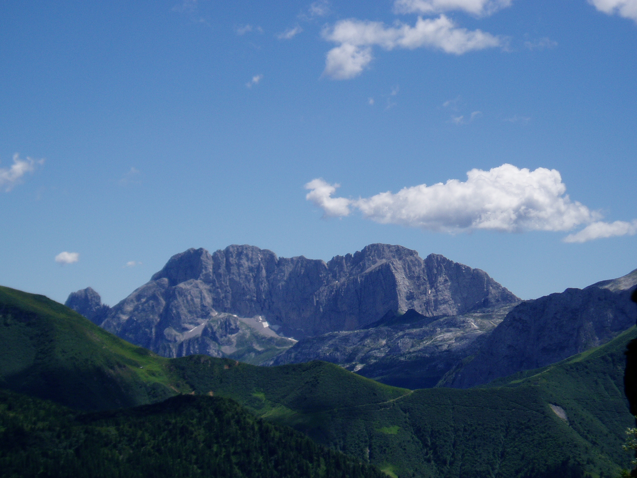 Pizzo della Presolana (2521 m) from a window of Coca alpine hut